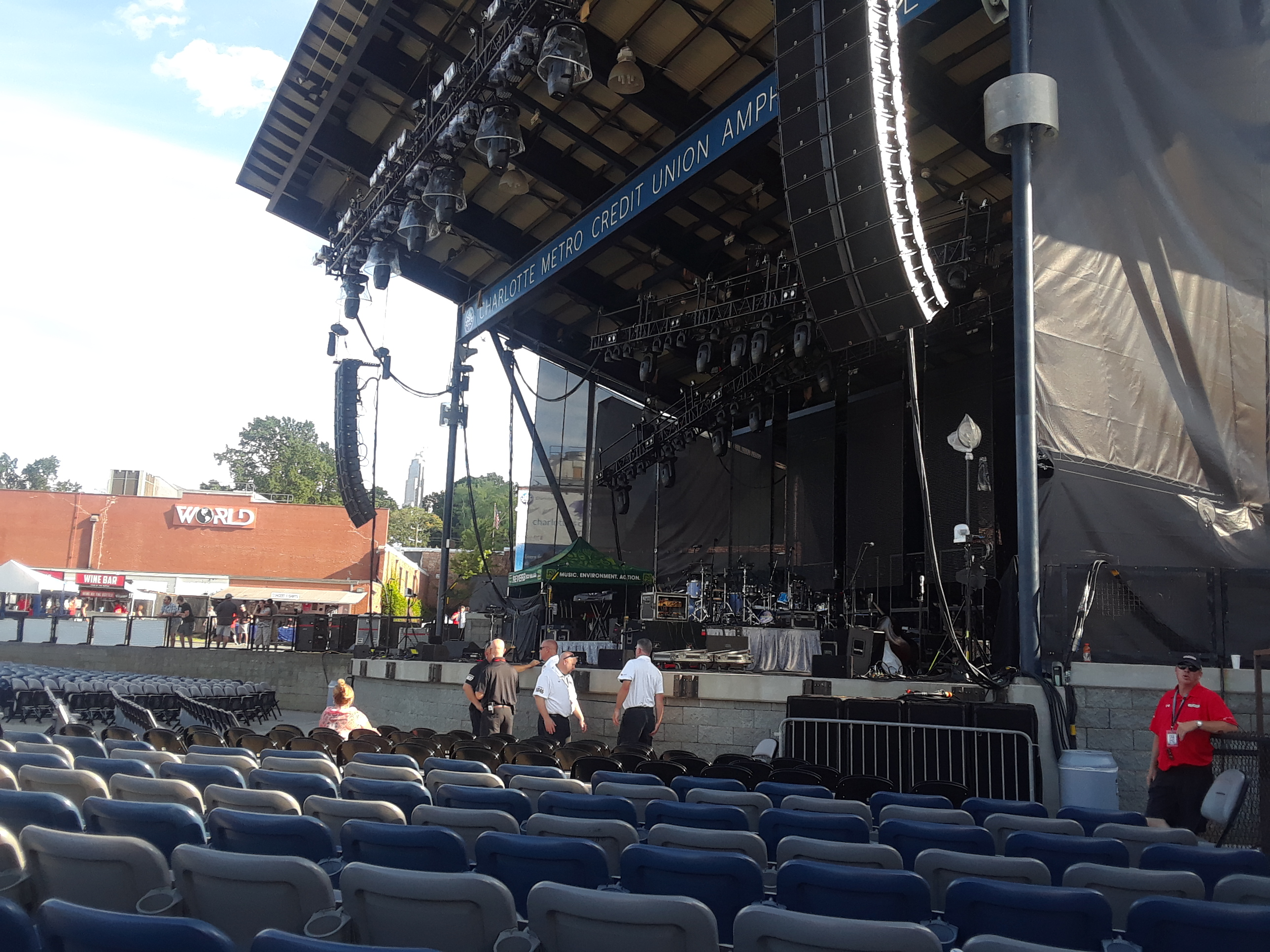 The stage at the Charlotte Metro Credit Union Amphitheatre in Charlotte, North Carolina.